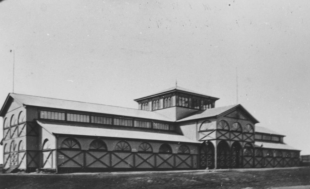 Original Exhibition Building, Bowen Hills ca. 1877 The Exhibition Building as it appeared after the construction of a tower for the 1877 Exhibition. It was destroyed by fire 13 June, 1888. (Description supplied with photograph).